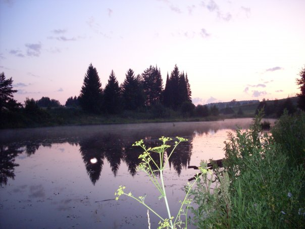 Kolyshevo, pond